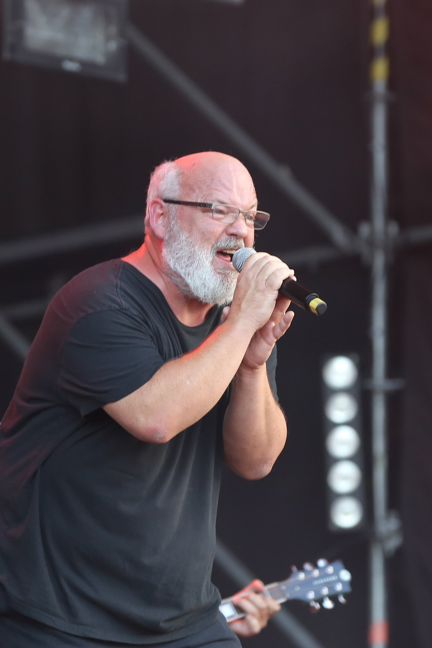 Kyle Gass Band at Przystanek Woodstock in 2017.